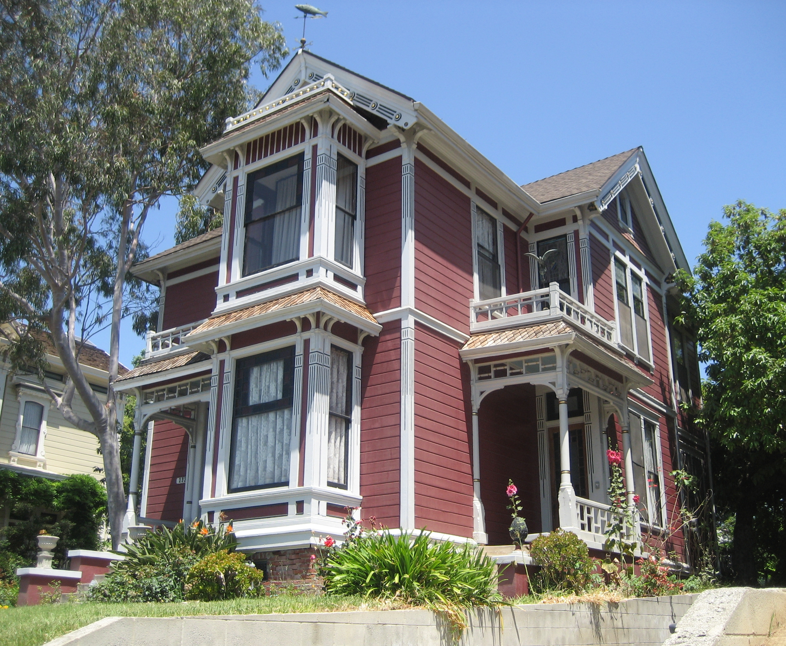 Eastlake Stick style Victorian house at 1329 Carroll Avenue — in the Angelino Heights neighborhood of the Echo Park district, Los Angeles. The "Charmed House" — used for filming in the "Charmed" TV series.